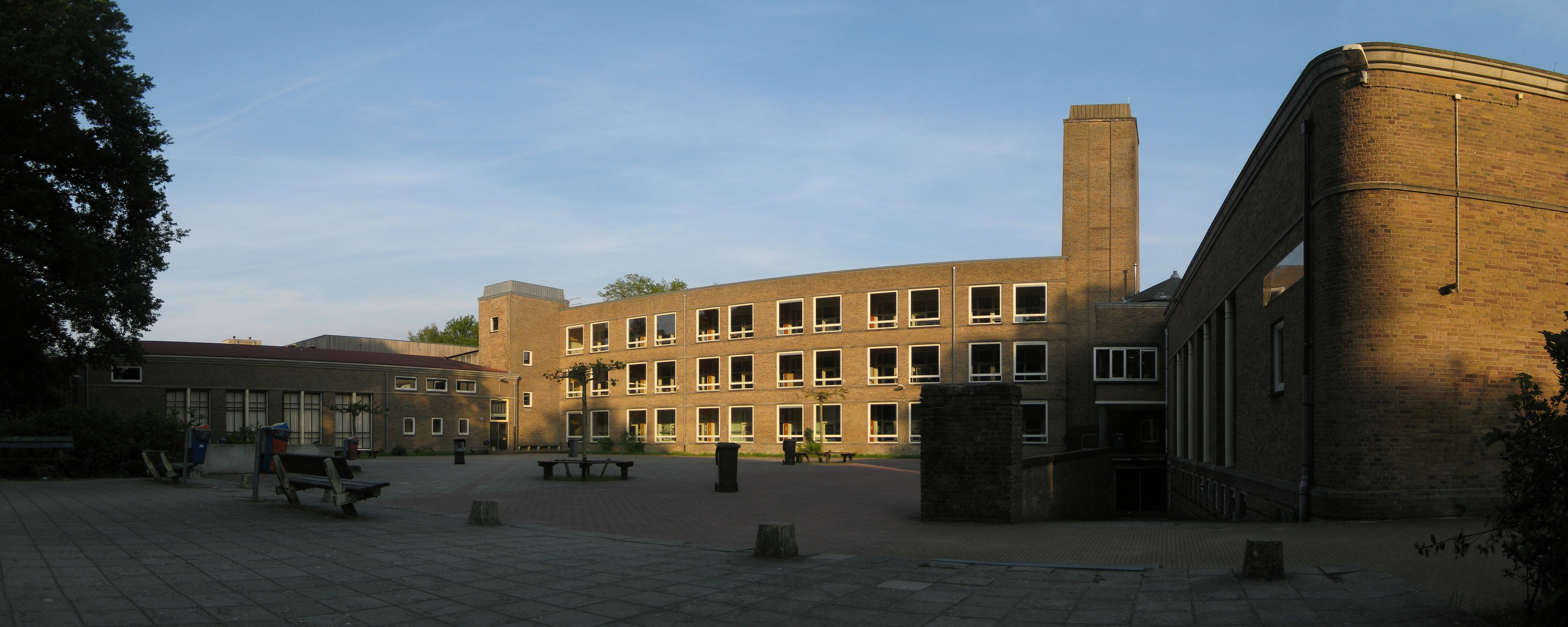 School building (1960) in Haren, a village in the Dutch province of Groningen.